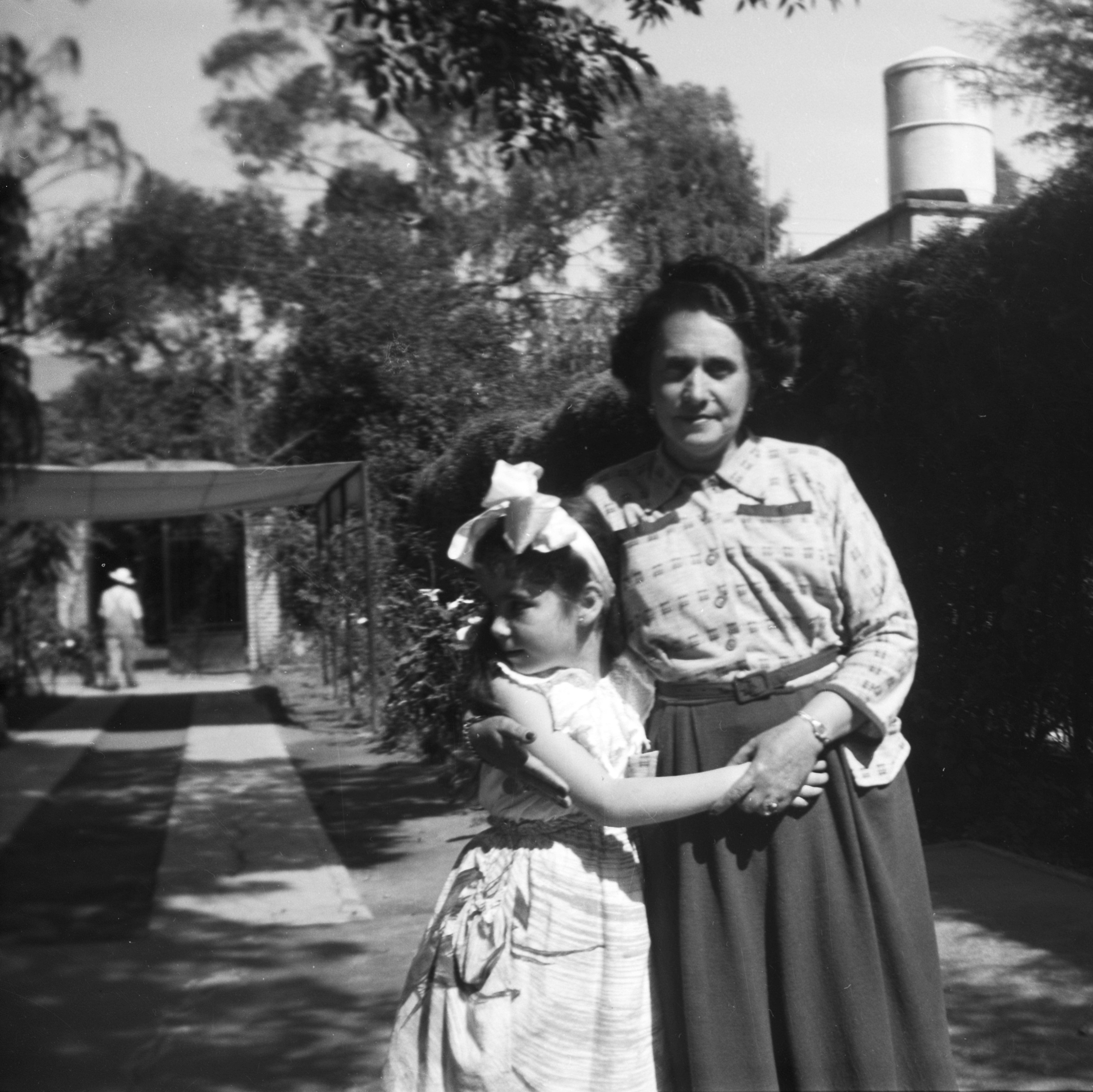 Helena Espinosa Berea, Mexican preschool teacher, with a student, in her preschool in Mexico City in the 1950s